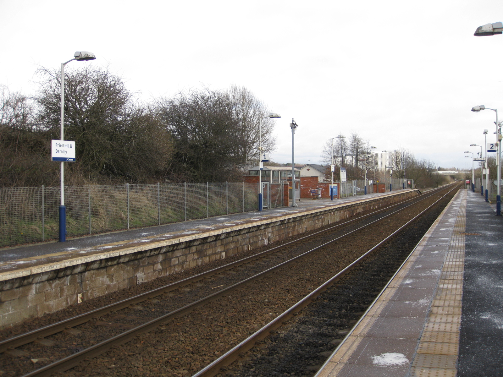 A view of Priesthill & Darnley railway station, looking east. Picture taken 14 March 2013.